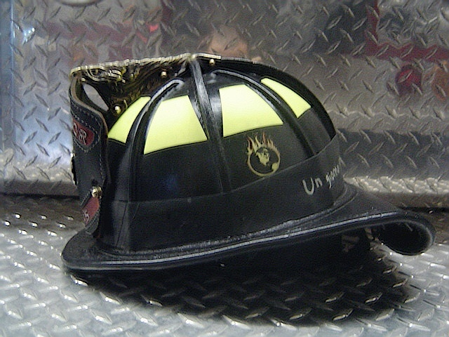 I own this picture, and the item in the picture